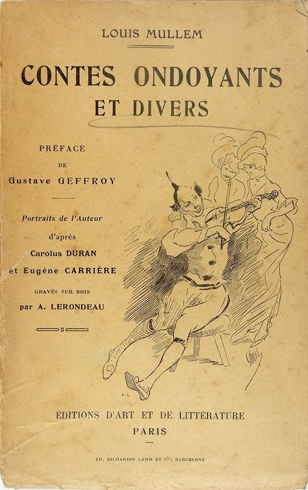 Cover of an edition of Contes ondoyants et divers (1909) by Louis Mullem, illustrated by Jules Chéret (1836-1932).